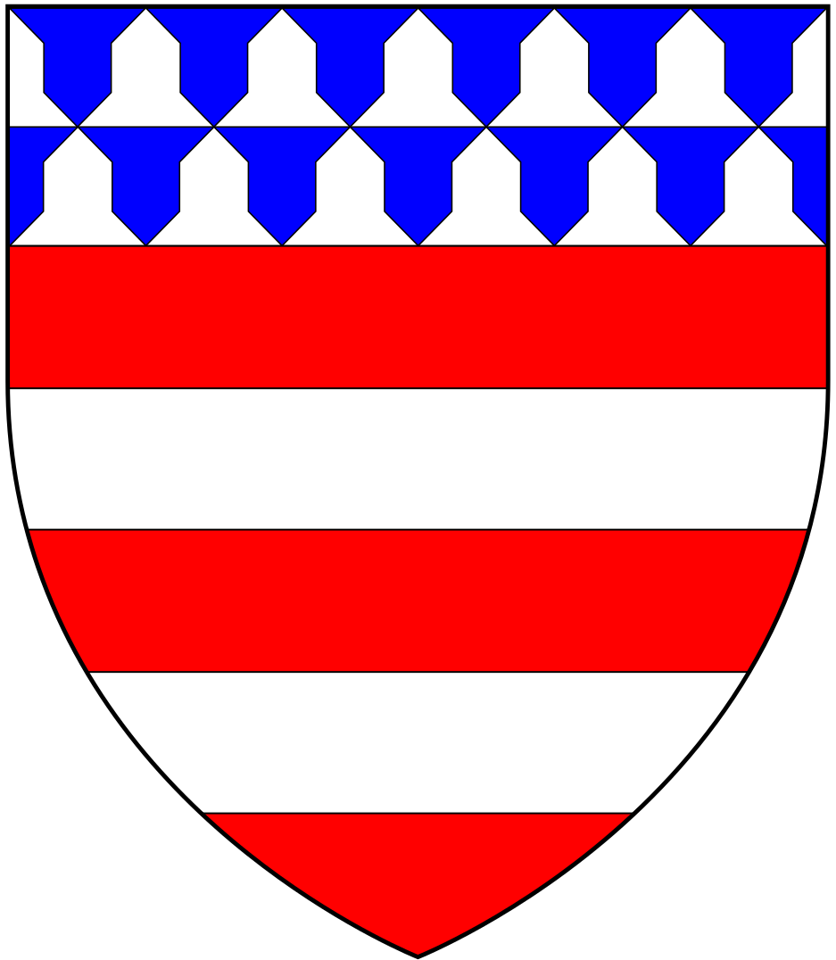 Arms of Pympe: Gules, two bars argent a chief vair. As quartered by Scott of Scot's Hall, Kent